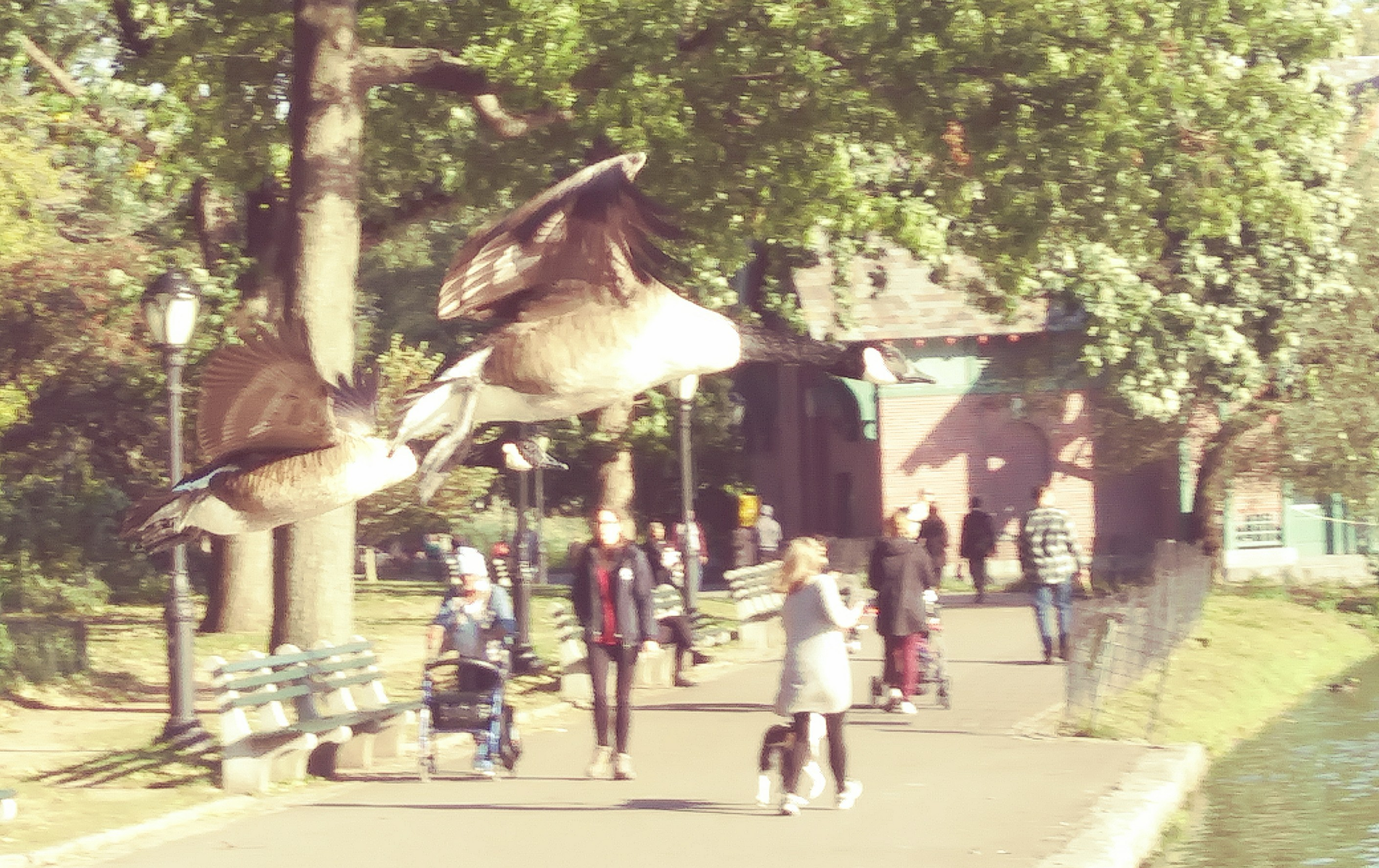 A pair of Canada geese who had been grazing a few meters away fly over pedestrians on a footpath alongside Harlem Meer in Central Park on their way to land in the water of the meer, October 17 2018 at 3:58 PM